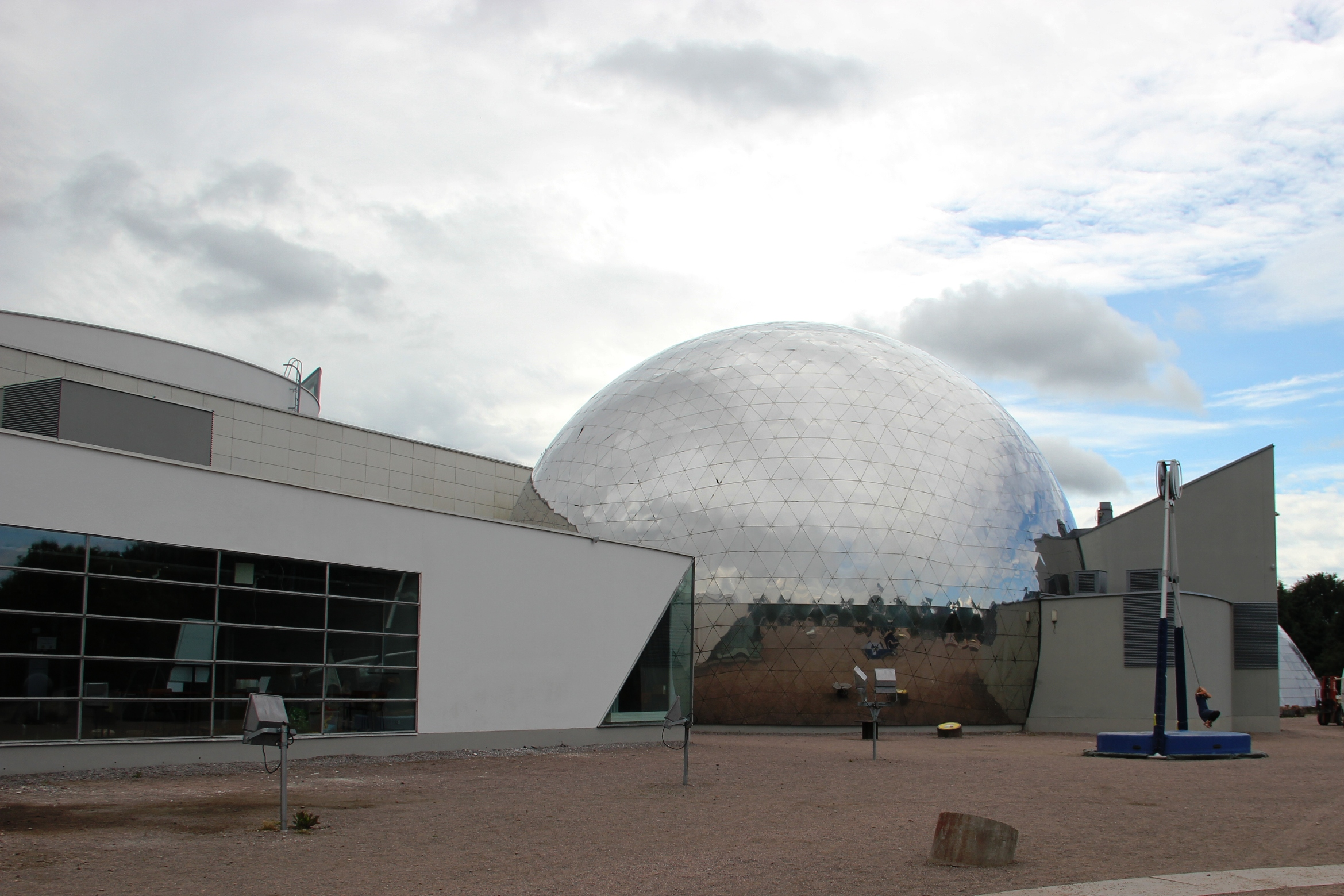 Science park Galilei outside Heureka